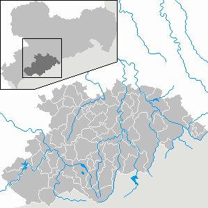 Municipalities in Erzgebirgskreis, Saxony